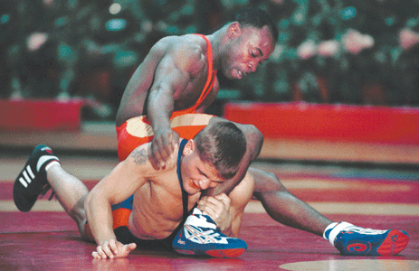 Andrell Durden (top) and Edward Harris grapple for position during the All-Marine Wrestle Offs. Durden and Harris were among the Marines selected during the wrestle offs to serve on the 2001 All Marine Wrestling Team.